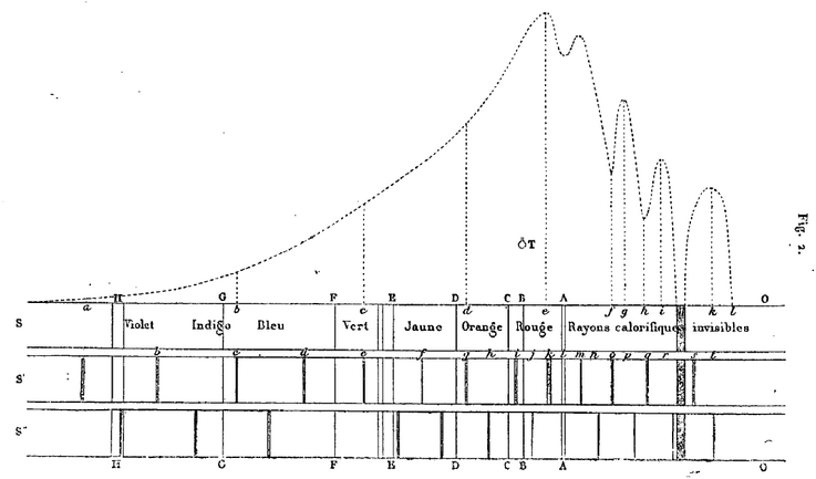 Infrared absorption bands in the solar spectrum observed by Fizeau and Foucault. These bands are due to water vapor absorption in the Earth's atmosphere. They mapped out these bands using a sensitive alcohol thermometer.